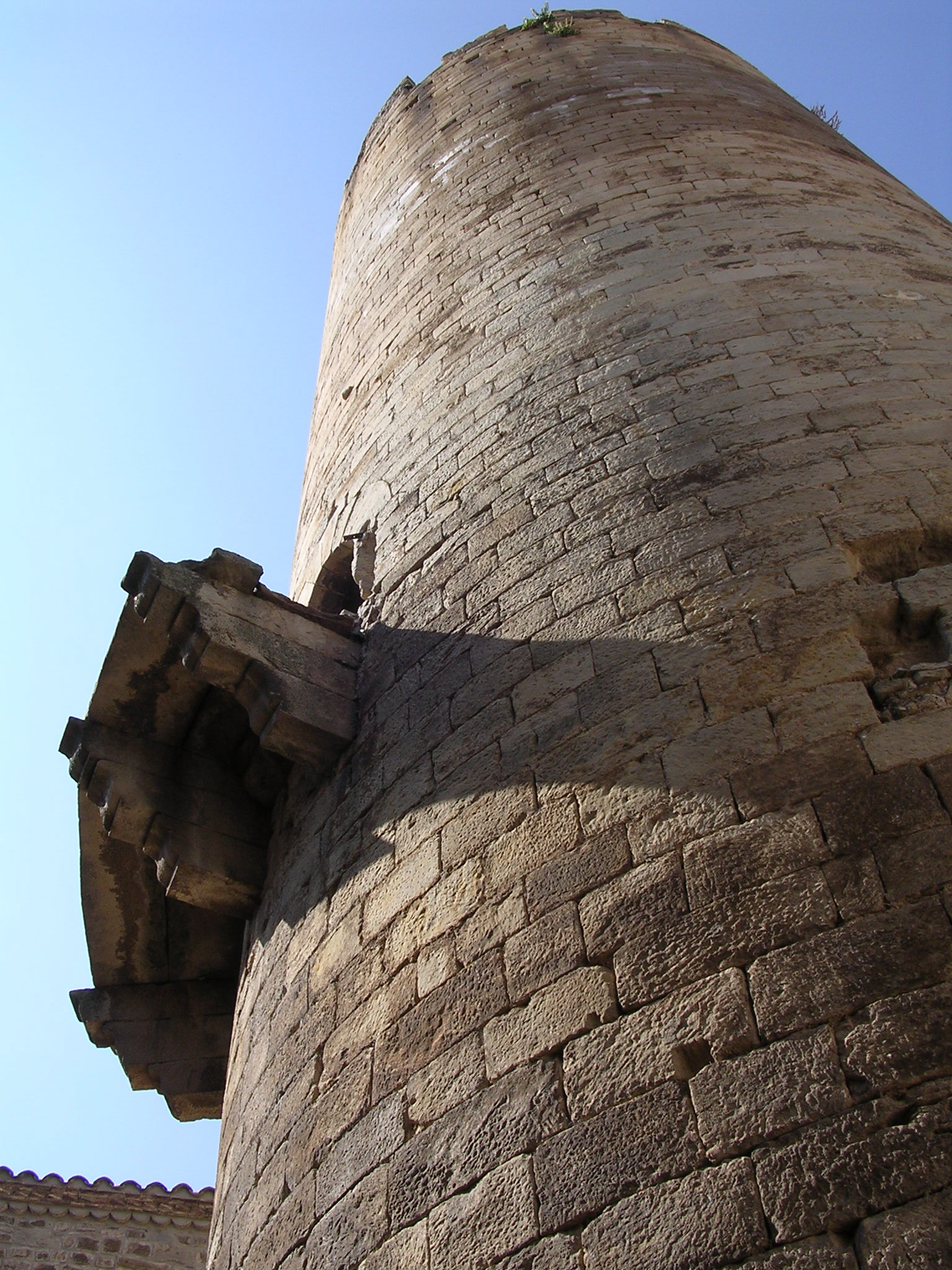 The castlan's tower inside the Castle of Verdú (Verdú, Catalonia)